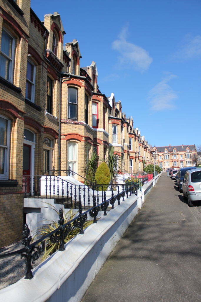 Hutchinson Square, Douglas, Isle of Man - the site of Hutchinson Internment Camp during World War II